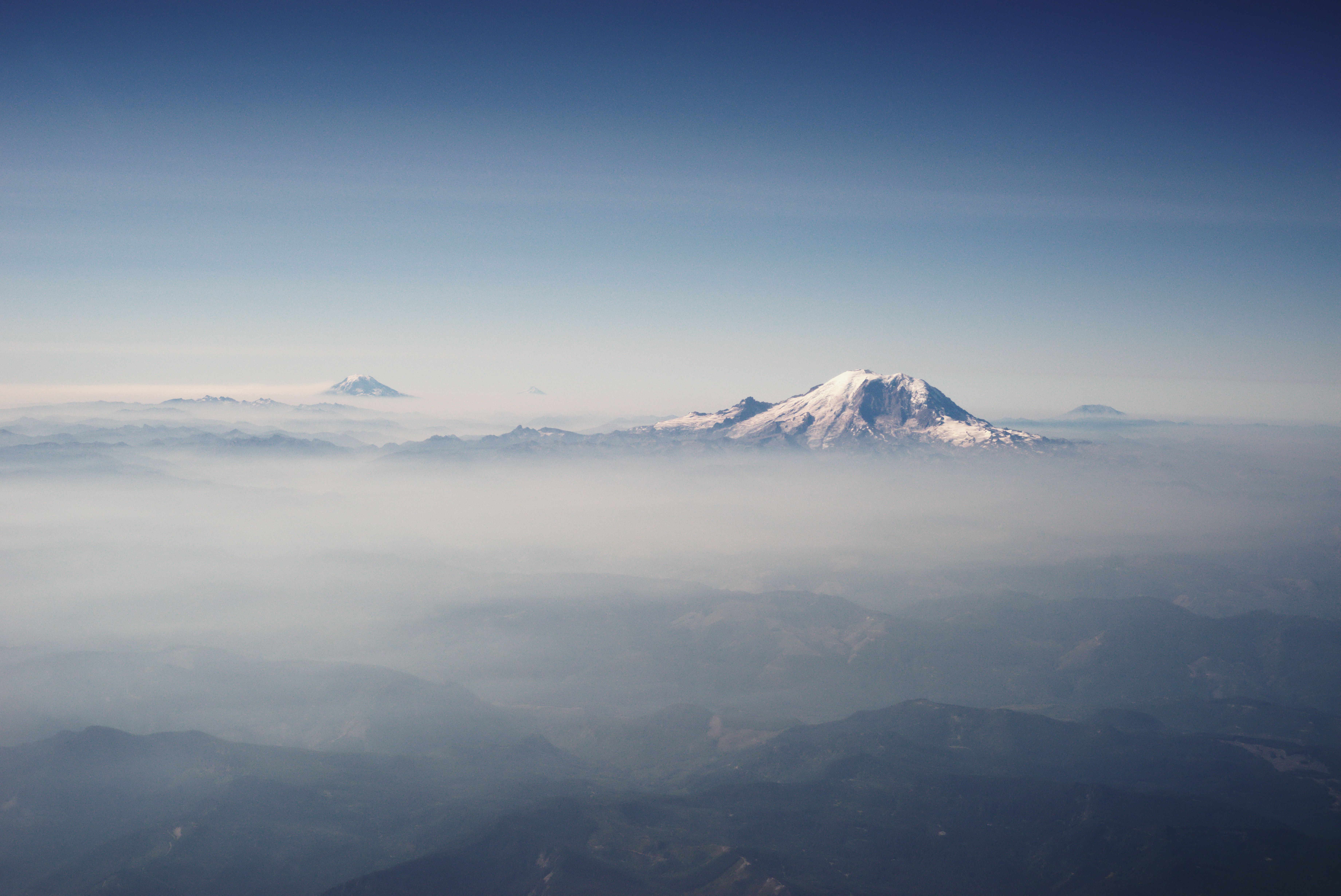 Three Cascade Range mountains: Mount Rainier (foreground) as well as Mount St. Helens and Mount Adams seen poking through the cloud layer shortly after takeoff on a commercial flight from Seattle to Detroit. Despite bringing a microfiber cloth to clean the aircraft window, the poor optical quality of the window resulted in a blurry photo.